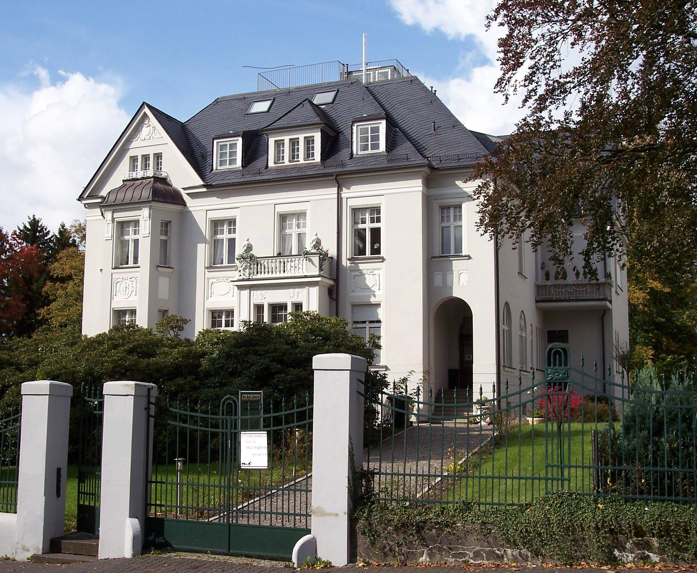 Villa of the industrialist Carl Berg, producer of the first Zeppelin-airship.